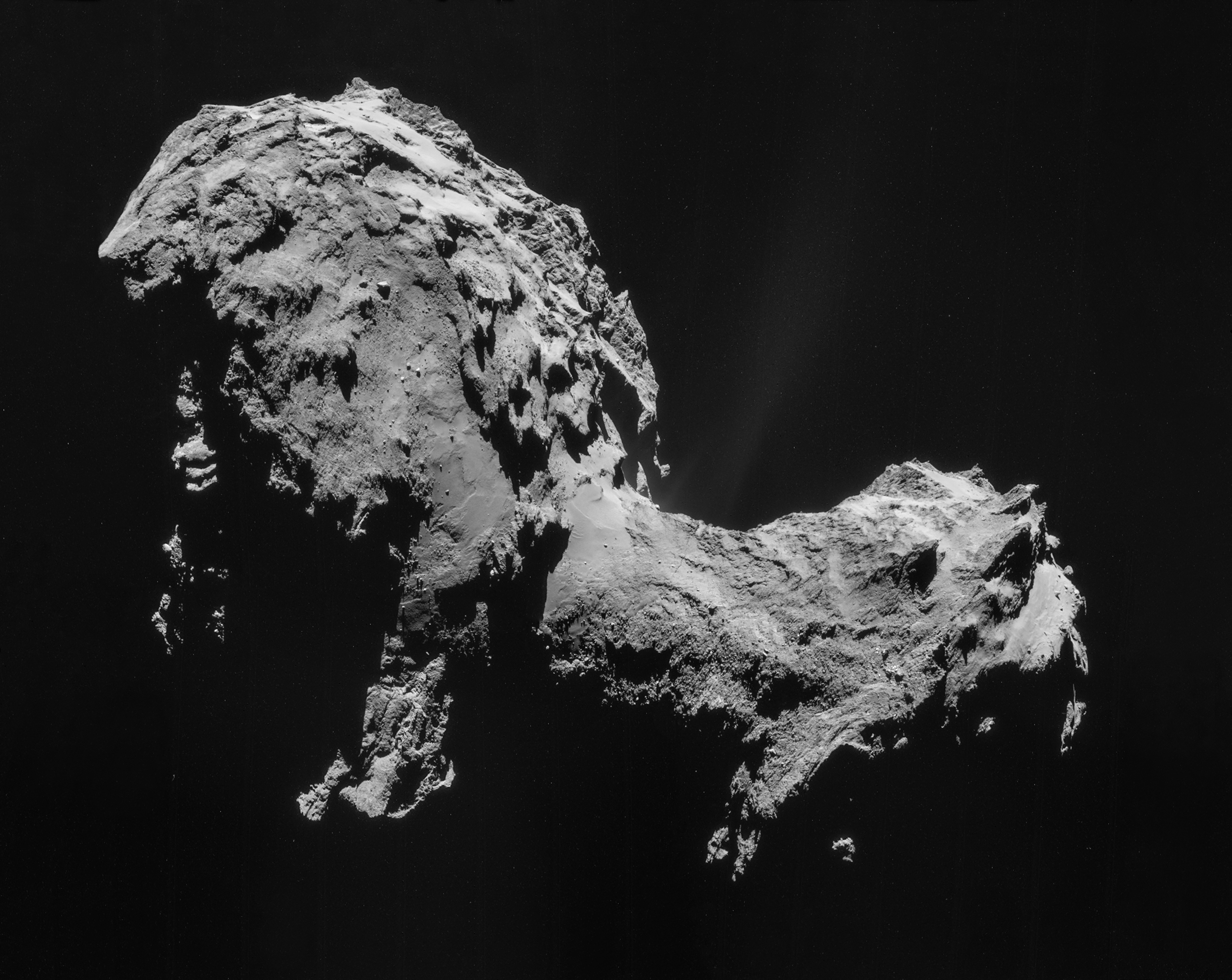 Mosaic of four images taken by Rosetta's navigation camera (NAVCAM) on 19 September 2014 at 28.6 km from the centre of comet 67P/Churyumov-Gerasimenko. The images used for this mosaic were taken in sequence as a 2×2 raster over an approximately 20 minute period, meaning that there is some motion of the spacecraft and rotation of the comet between the images. The four individual full-frame images are also available as related images in the right-hand menu. Note this mosaic has been rotated by 180 degrees and cropped. The mosaic has been put together using Microsoft ICE. This left a few small regions requiring slight exposure adjustments using Adobe LightRoom. The full image has then been lightly contrast enhanced to bring out the activity without increasing the background noise too much. Read more in the blog : CometWatch – 19 September.